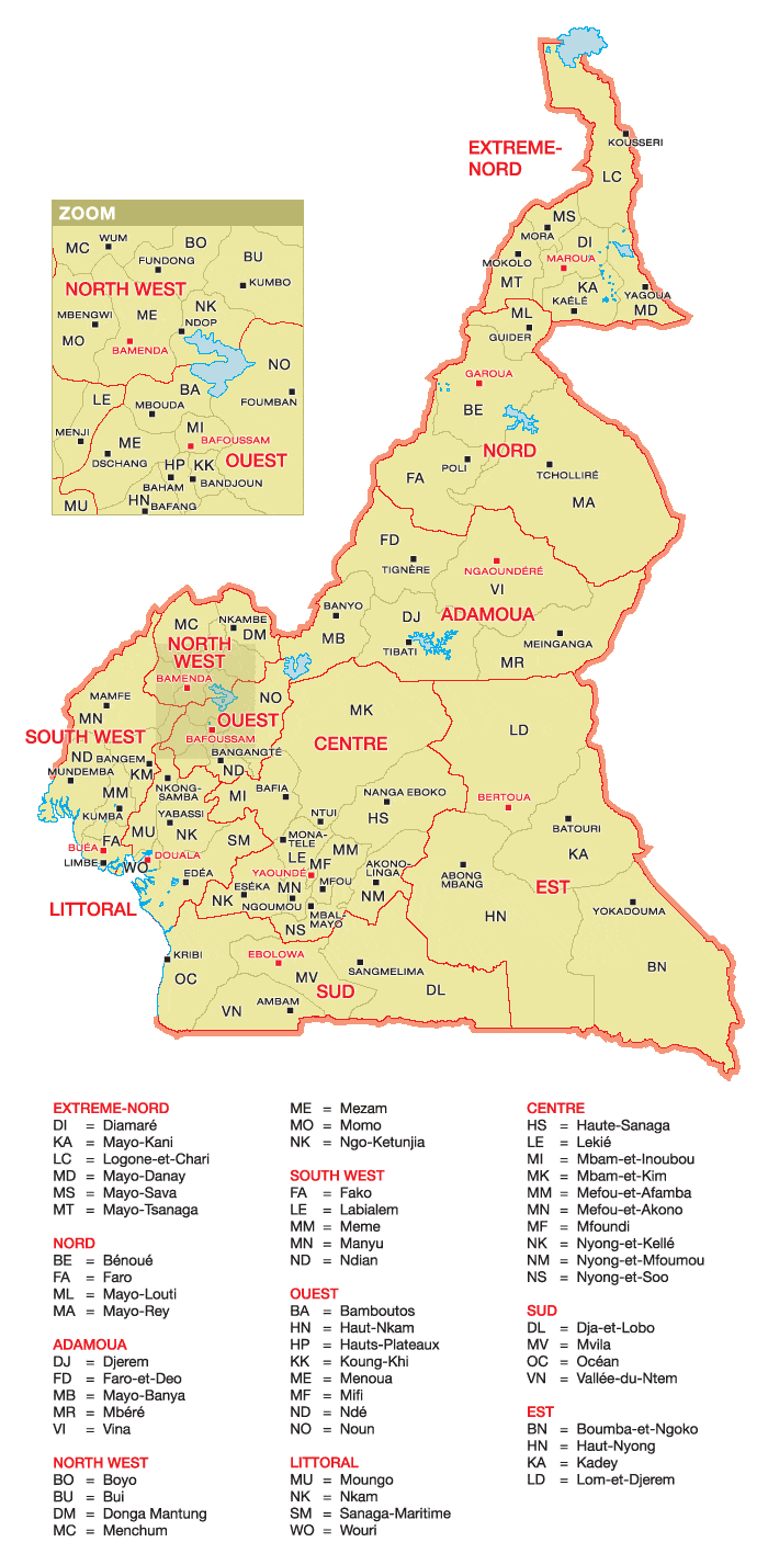 Map of Cameroon, its districts and major cities.